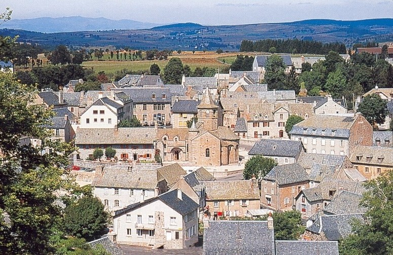 View of Nasbinals, Lozère, France.